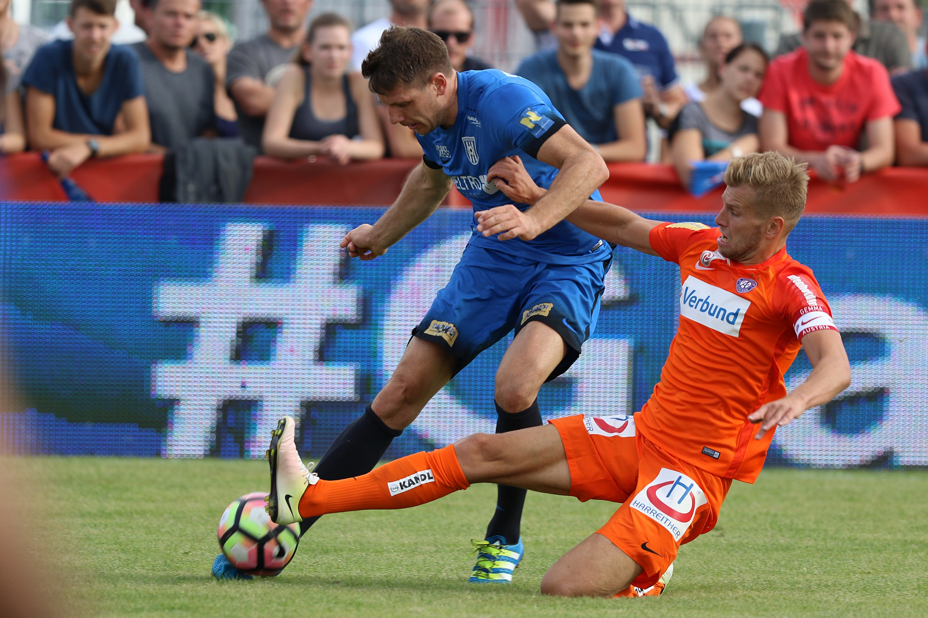 2017–18 Austrian Cup - ASK Ebreichsdorf (blue shirts) vs. FK Austria Wien (orange shirts) 0-0, penaltyscore 3-4. – The photo shows Luka Gusic (left) and Alexander Grünwald (right).